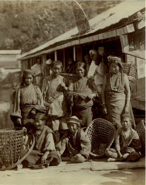 Vintage group photograph of Bhutia coolies in 1875